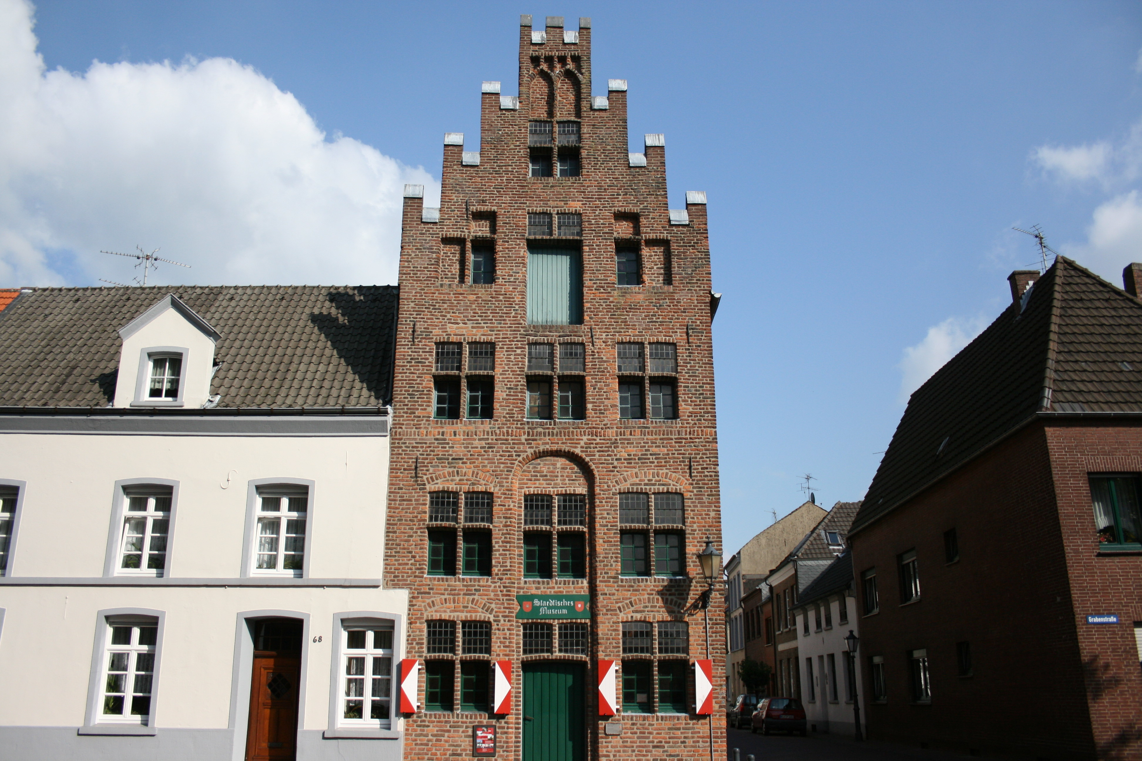 Städtisches Museum in Kalkar This is a photograph of an architectural monument.